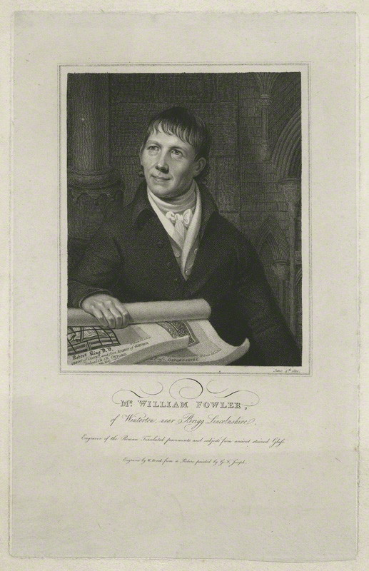 Stipple engraving of William Fowler by William Bond, after George Francis Joseph